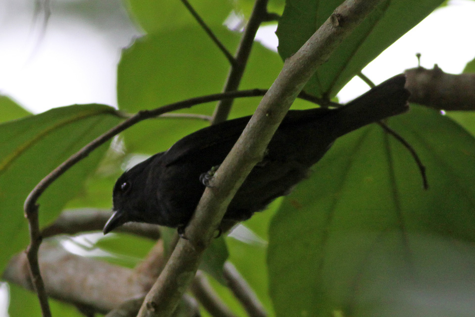 John Crow Mountains